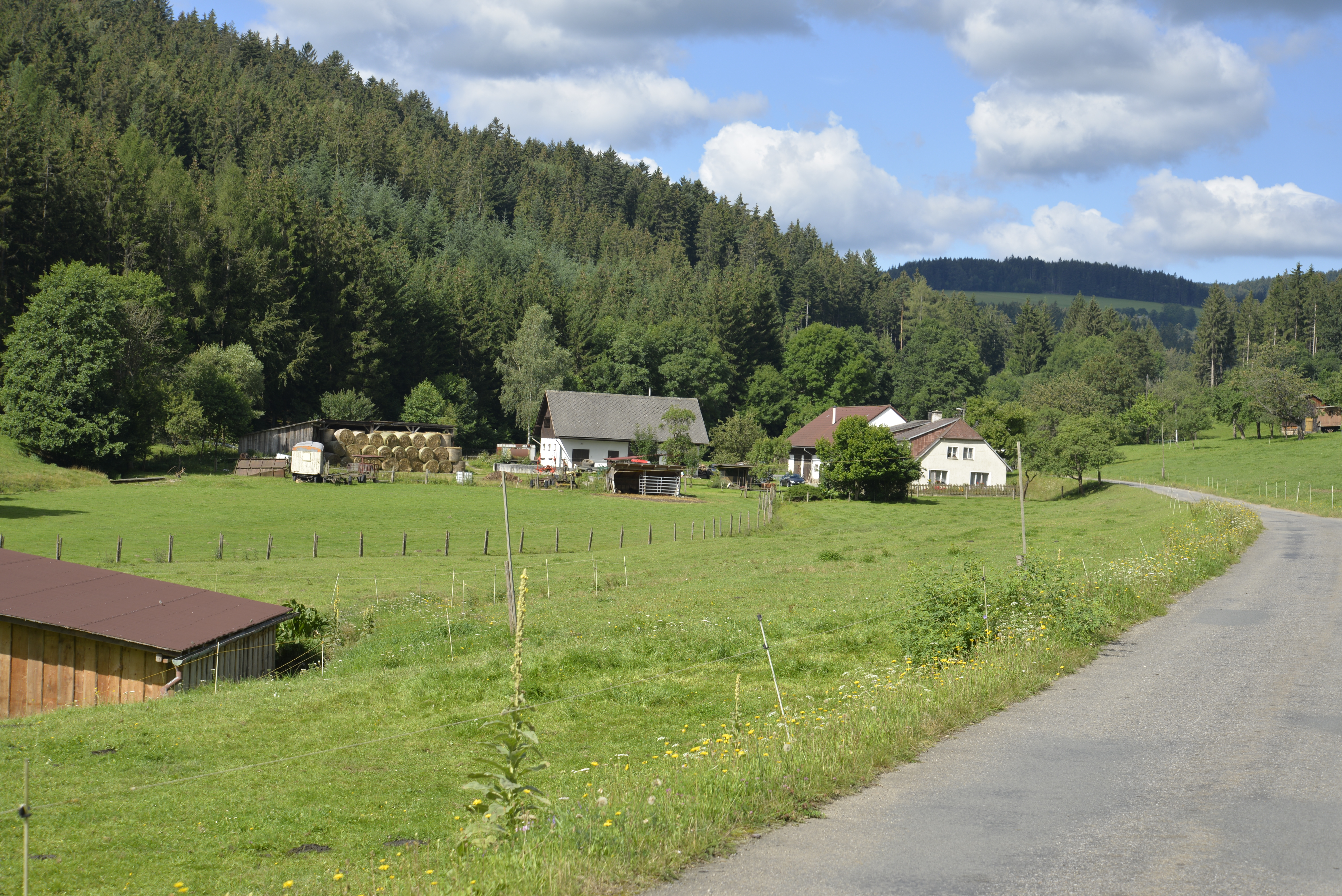 Puchverk - small village, part of Hlavňovice in Klatovy District